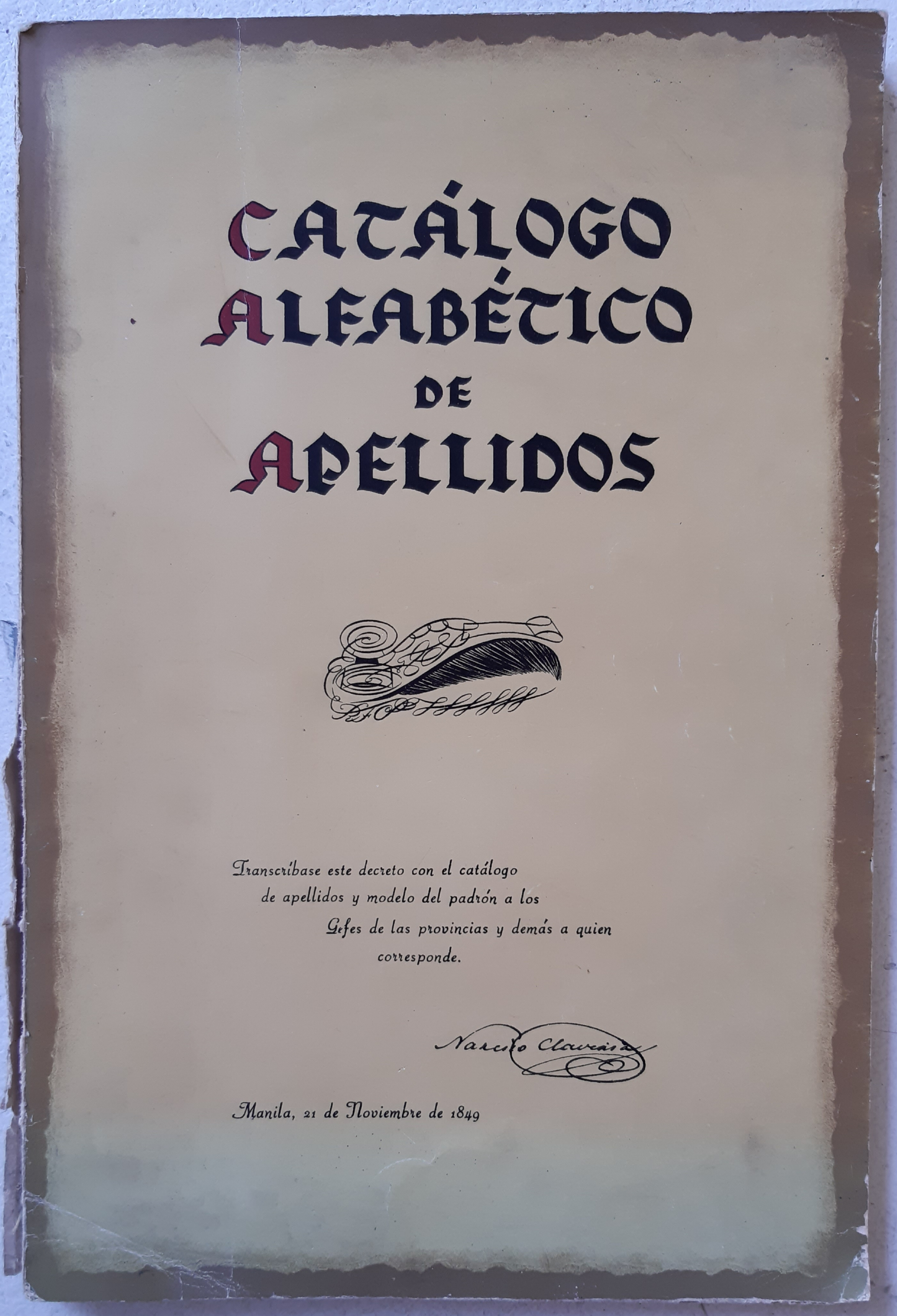 A reprint by the Philippine National Archives of Catalogo Alfabetico de Apellidos published in Manila, November, 1849.